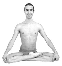 Siddhásana for men